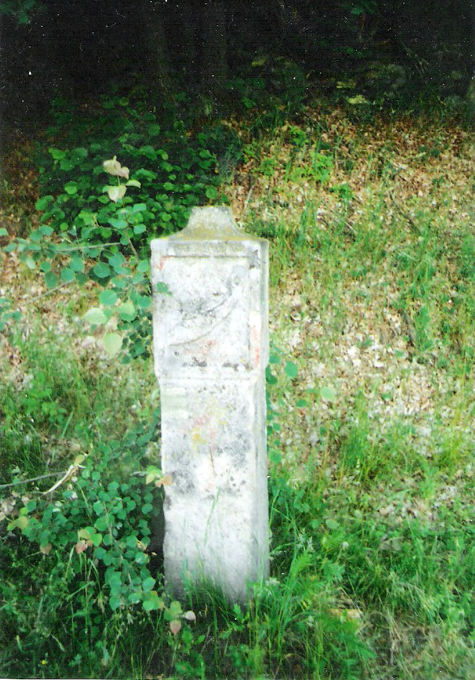 Historic road sign - braking stone - besides III/1623 road, Rožmberk nad Vltavou, Český Krumlov District, South Bohemian Region, Czech Republic